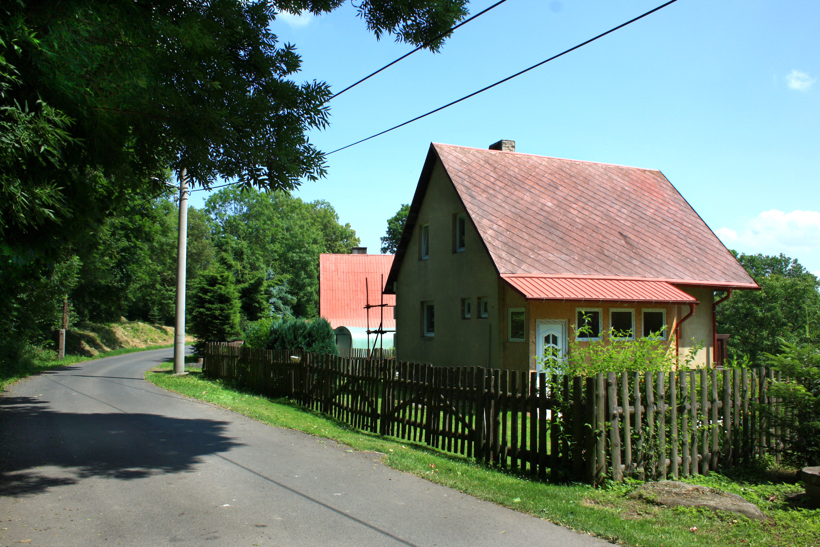 Bečov, part of Blatno, Czech Republic